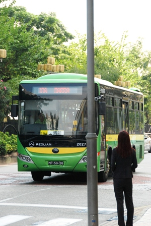 Bus model ZK6902HG used by Reolian in Macao, China.